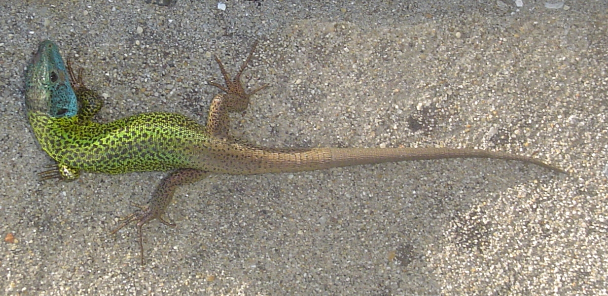 Foto of a local lizard